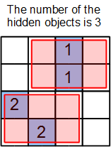 An example tentaizu 4x4 puzzle of for partitioning